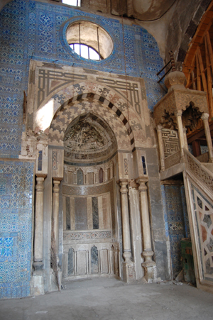 Interior of the prayer room at the Blue Mosque (Aqsunqur Mosque) in Cairo, Egypt. Photograph by Brady Brim-DeForest.